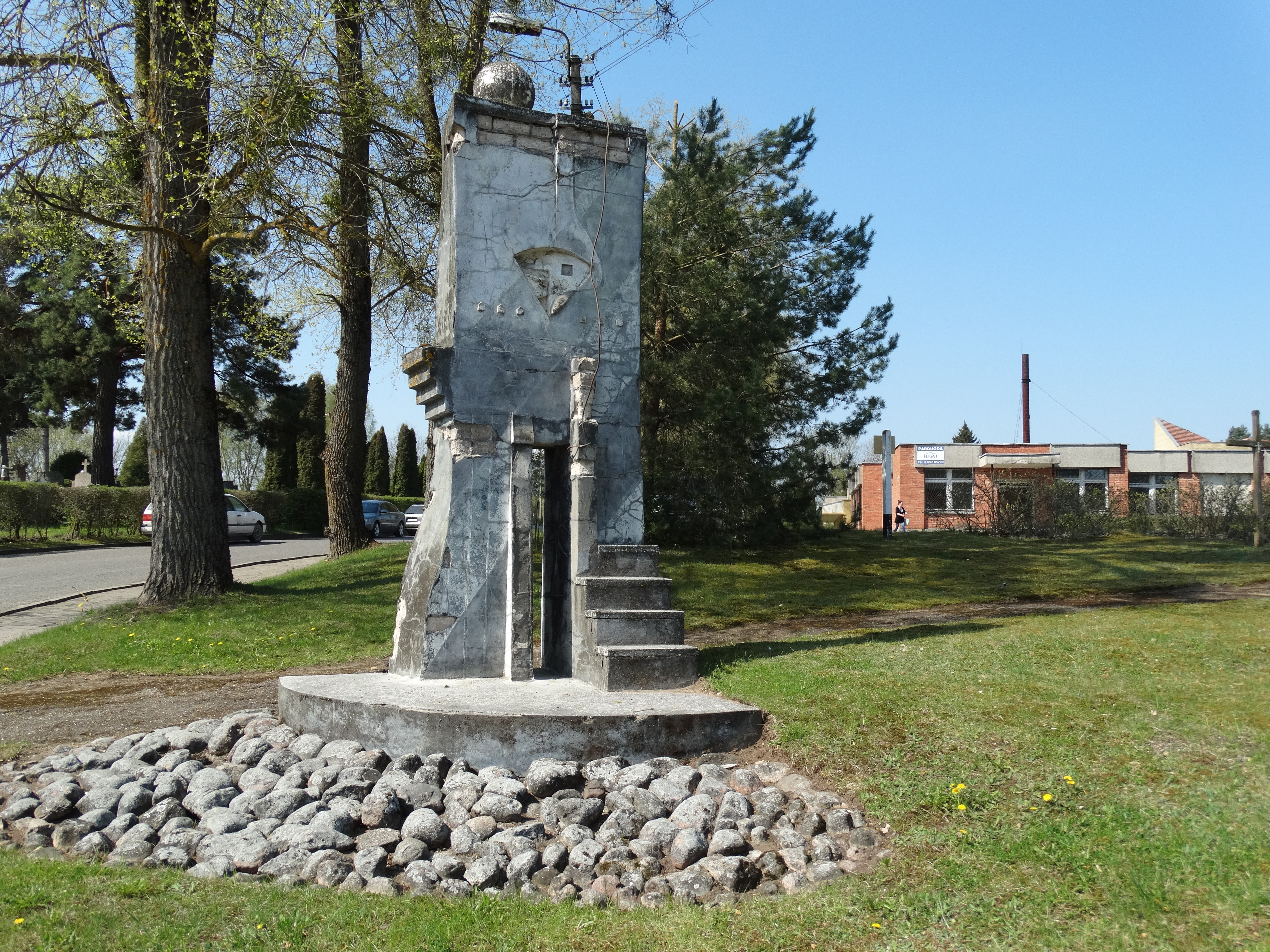 Čiobiškis, Širvintos District, Lithuania